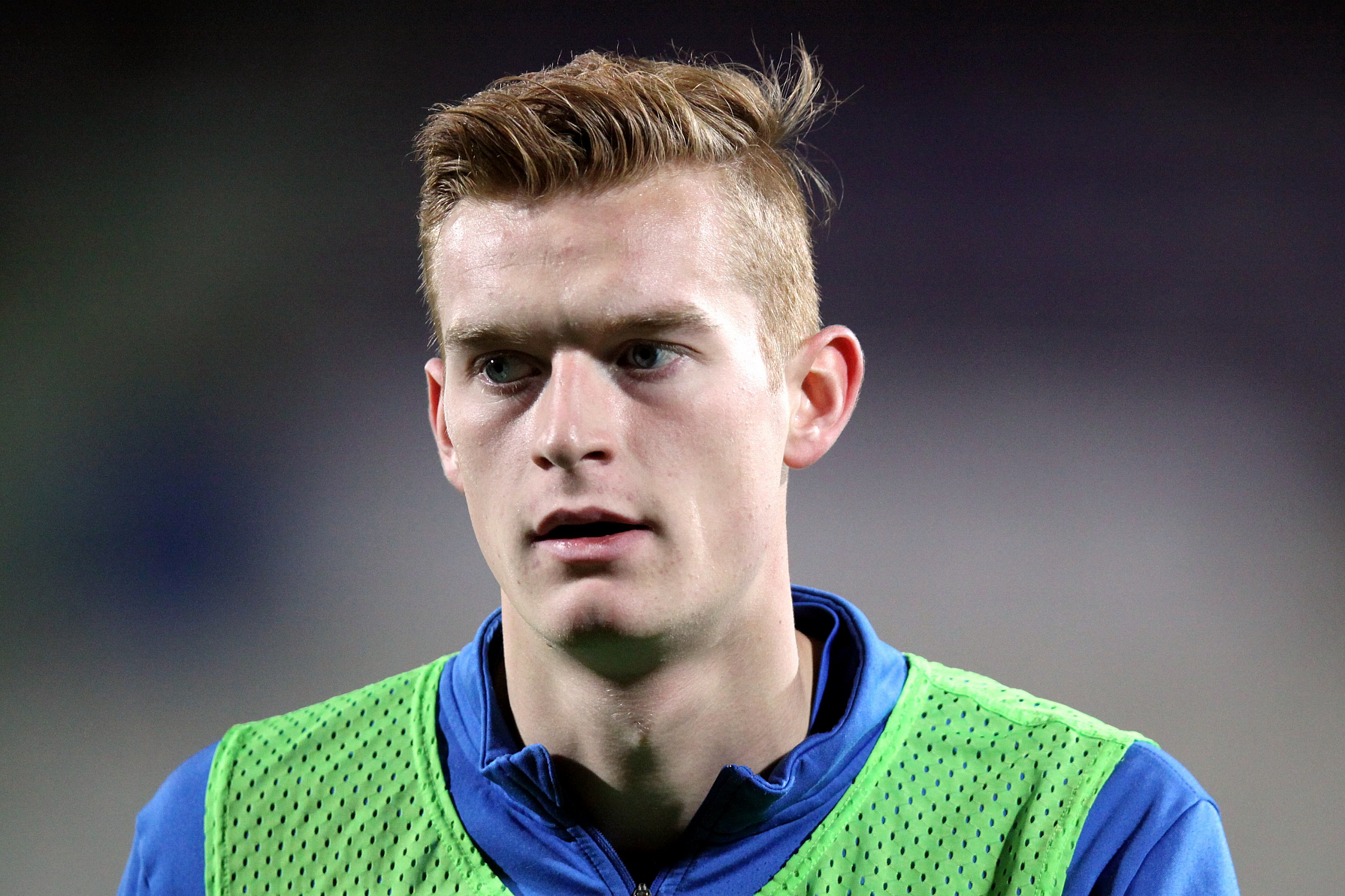 2017 UEFA European Under-21 Championship qualification – Austria U-21 (red shirts) vs. :en:Finland national under-21 football team |Finnland U-21 (blue shirts) 2-0 (0-0) – 2015-11-13 in Vienna, Austria Arena – The photo shows Matej Hradecký.